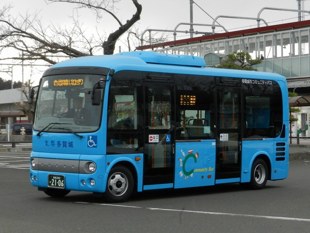 Sen-en Kotsu HINO Poncho (SKG-HX9JLBE) for Tagajo city West bus line